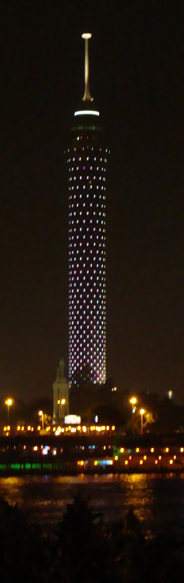 Cairo Tower At Night